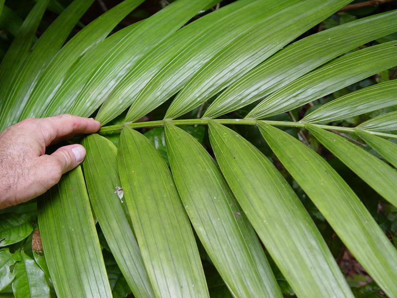 Laccospadix australasica on Mt. Lewis. Young plant, with broad pinnae, resembling Howea forsteriana